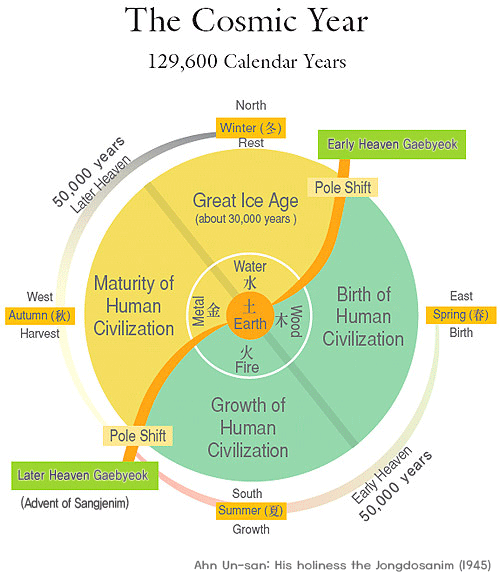 Jeung San Do Cosmic Year diagram